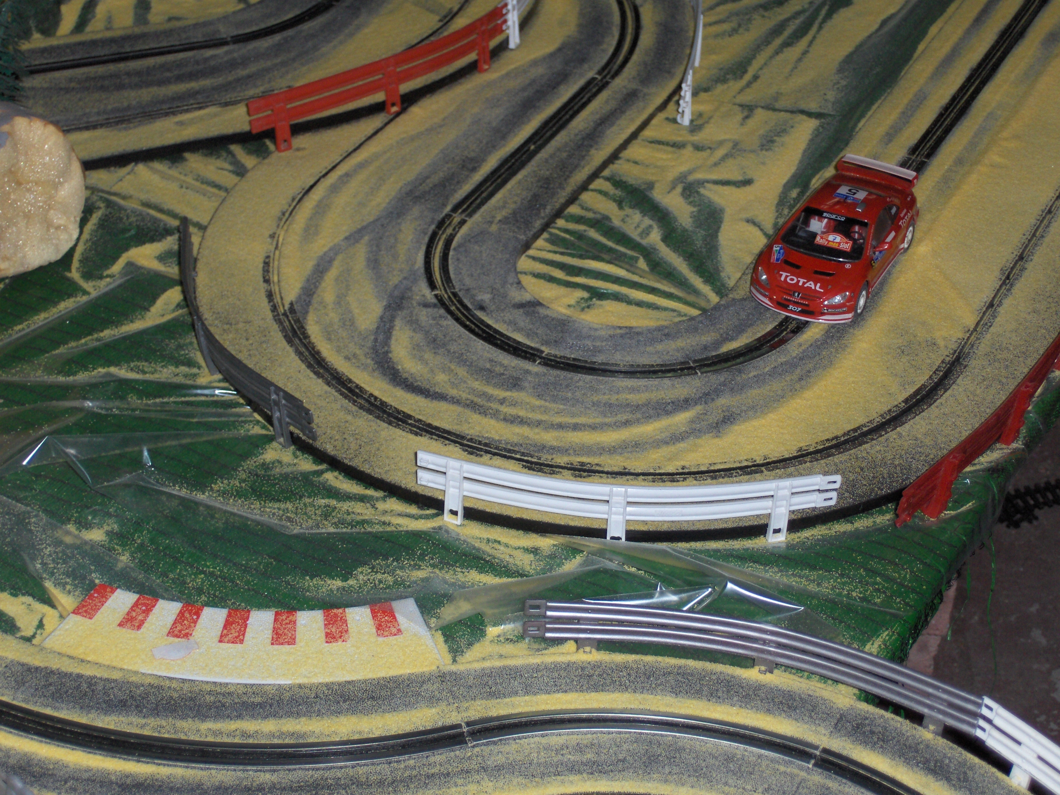 Peugeot 307 WRC slot car from Scalextric